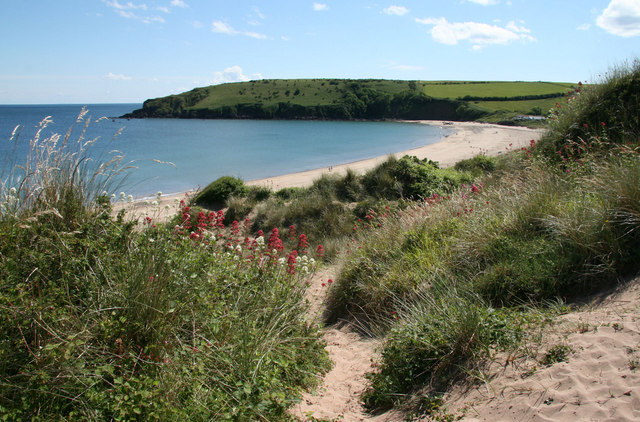 Freshwater East Bay View south from the dunes towards Trewent Point. The headland is in the lowest part of the sequence of rocks known as the Old Red Sandstone, and includes a layer of volcanic ash (the Townsend Tuff, exposed on the inaccessible south side of the headland). The dunes extend northwards over the ridge on which the modern village has been built. A late period of sand encroachment (post 13th century) led to abandonment and burial of an early Christian settlement (radicarbon date c. 550AD).